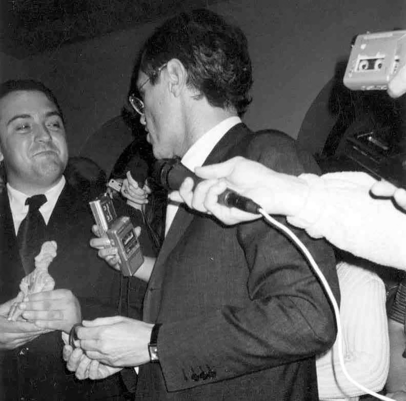 Ceremonia e kthimit të Hyjneshës në Fron. Arbër Hadri (majtas) dhe Michael Steiner (djathtas). Në vitin 1999 autoritetet serbe morën mbi 1000 artefakte nga Muzeu i Kosovës. Sipas pakos së Ahtisarit Serbia është dashur t’i kthej këto artefakte në Kosovë në afat prej 120 ditësh, Deri më tani pala sërbe ka kthyer betëm Hujneshën në fron në maj të vitit 2002, pas presionit të atëhershëm të UNMIKU-ut, Michael Steiner.